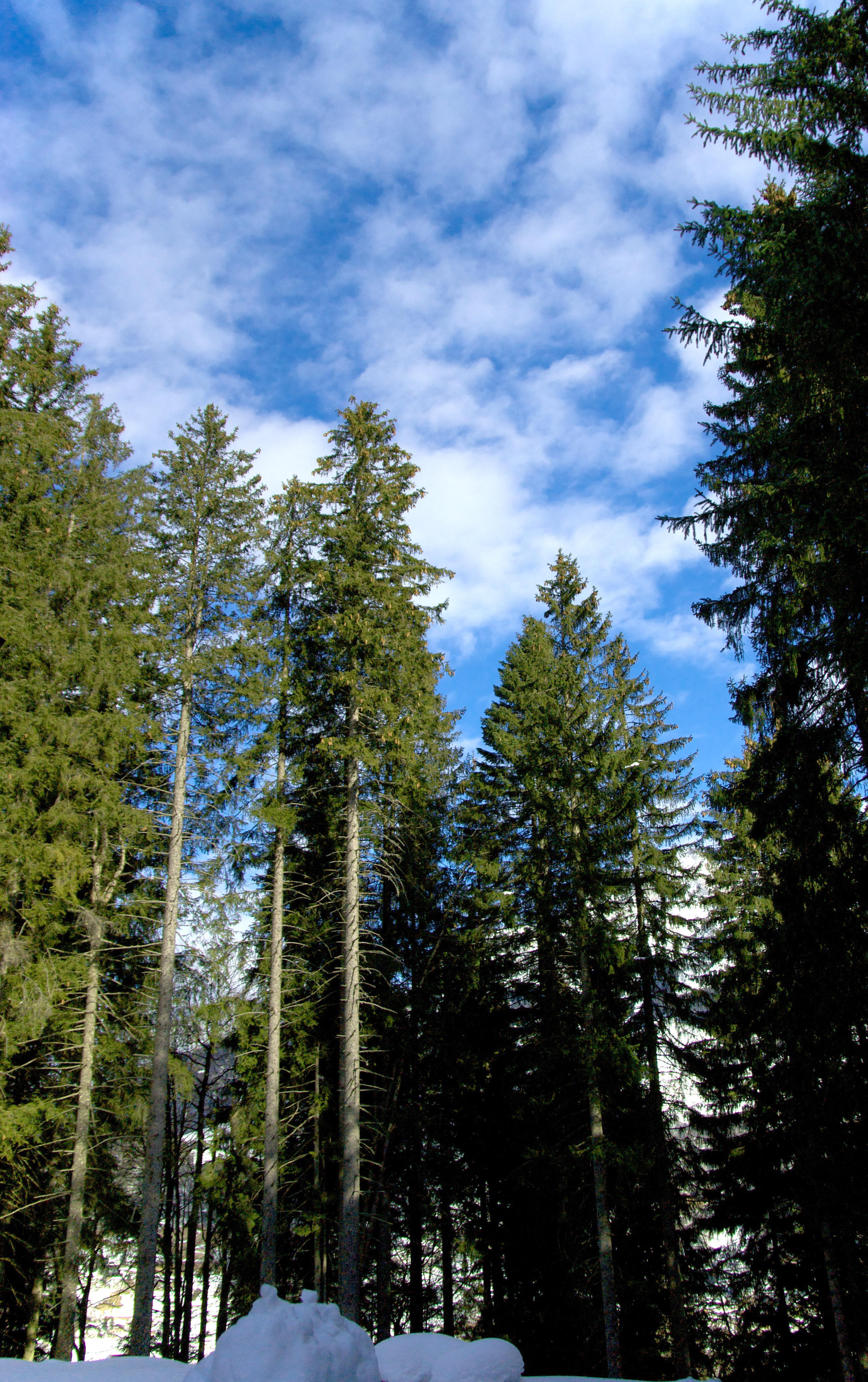 Picea abies forest, Engelberg, Switzerland.